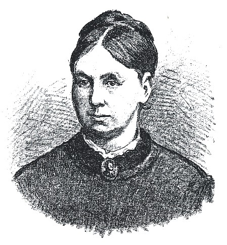 Portrait of German writer Pauline Schanz (1828-1913), mother of writer Frida Schanz.